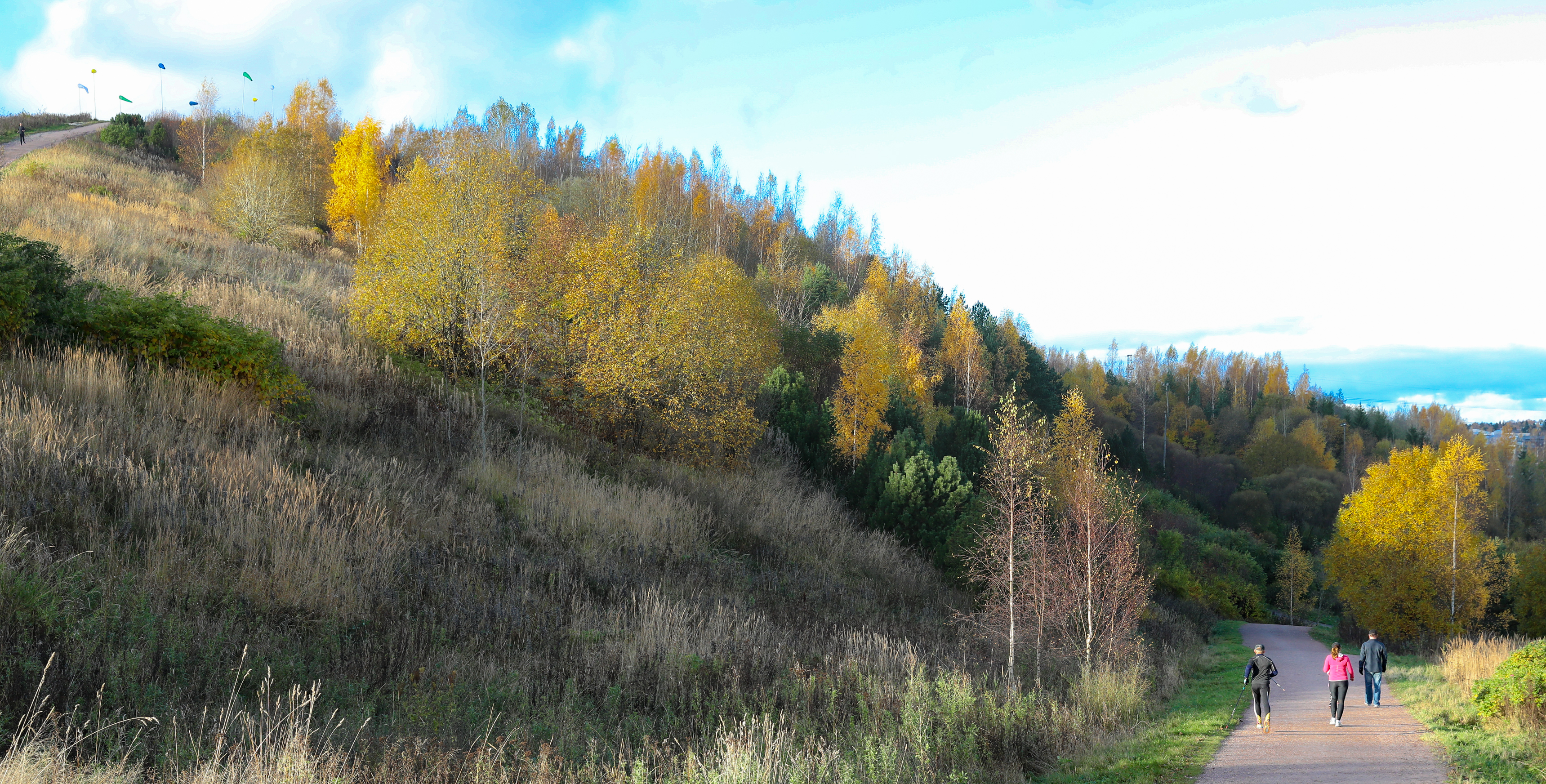 Road to Malminkartanonhuippu, the highest hill in Helsinki, Finland